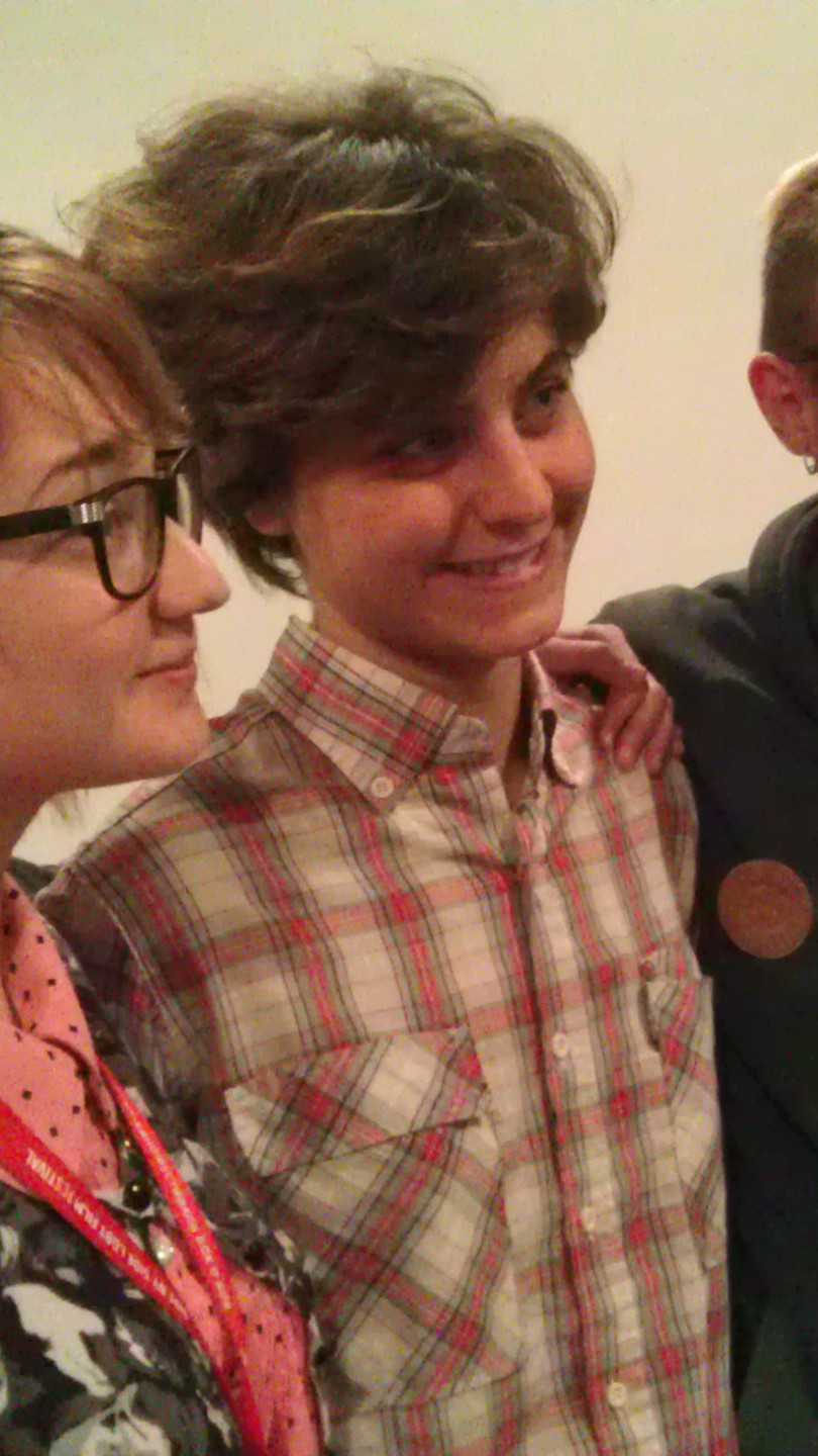 Ondina Quadri, italian actress, at Side by Side LGBT film festival in Saint Petersburg, Russia.